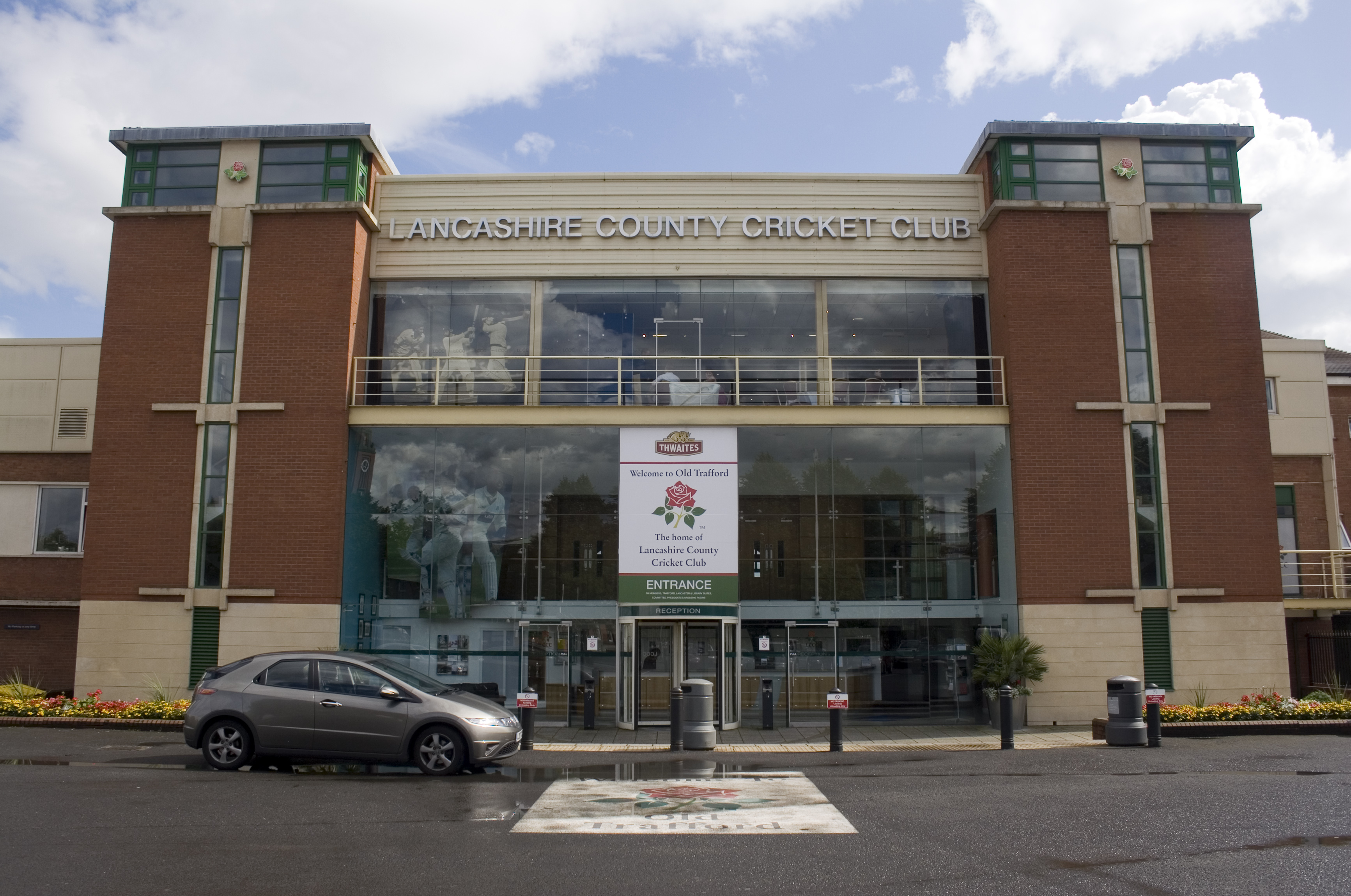 The new entrance to Lancashire County Cricket Club in Trafford.